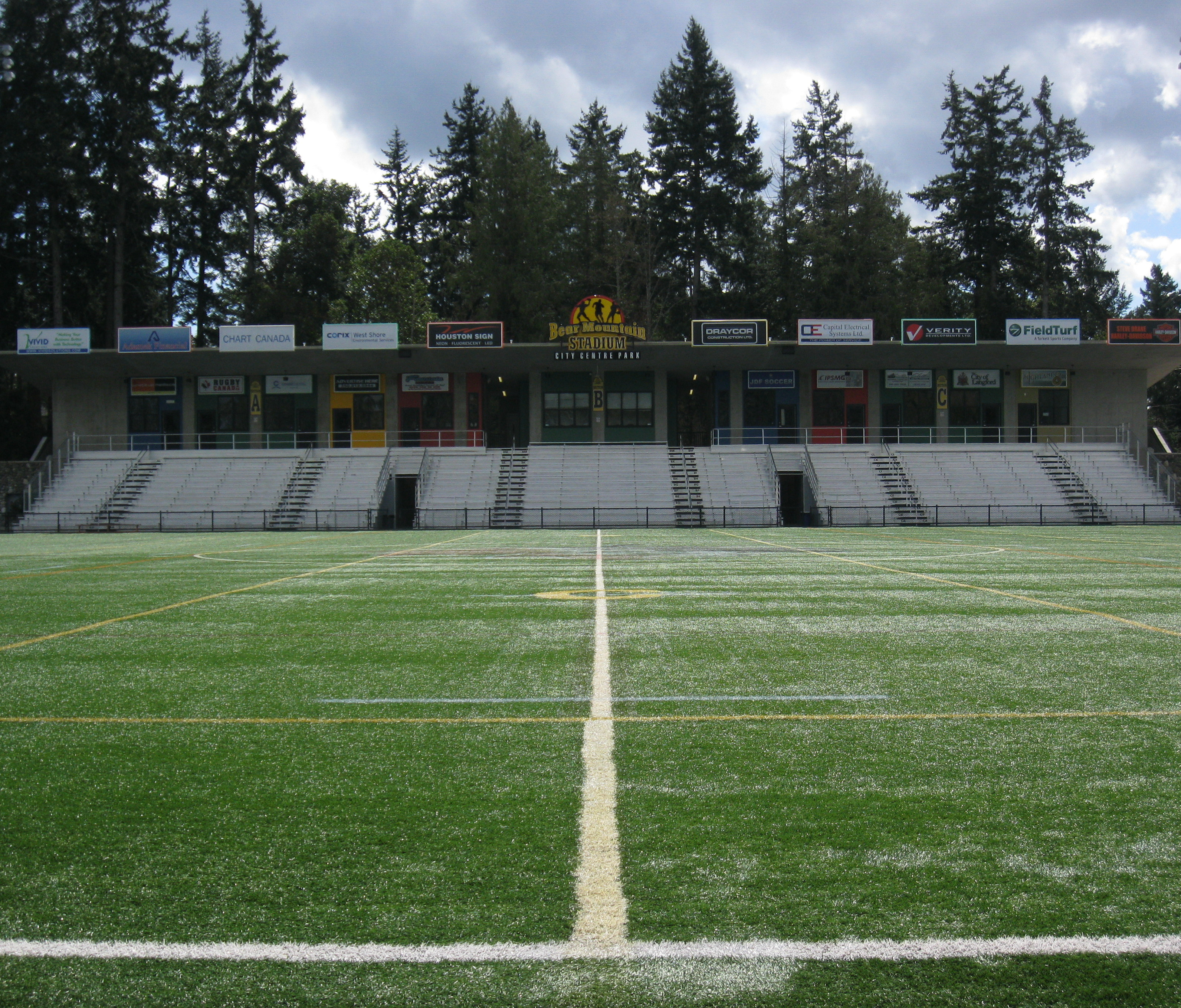 Bear Mountain Stadium Langford.